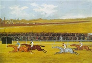 Painting by James Walsham Baldock of the finish of the 1888 Lancashire Plate